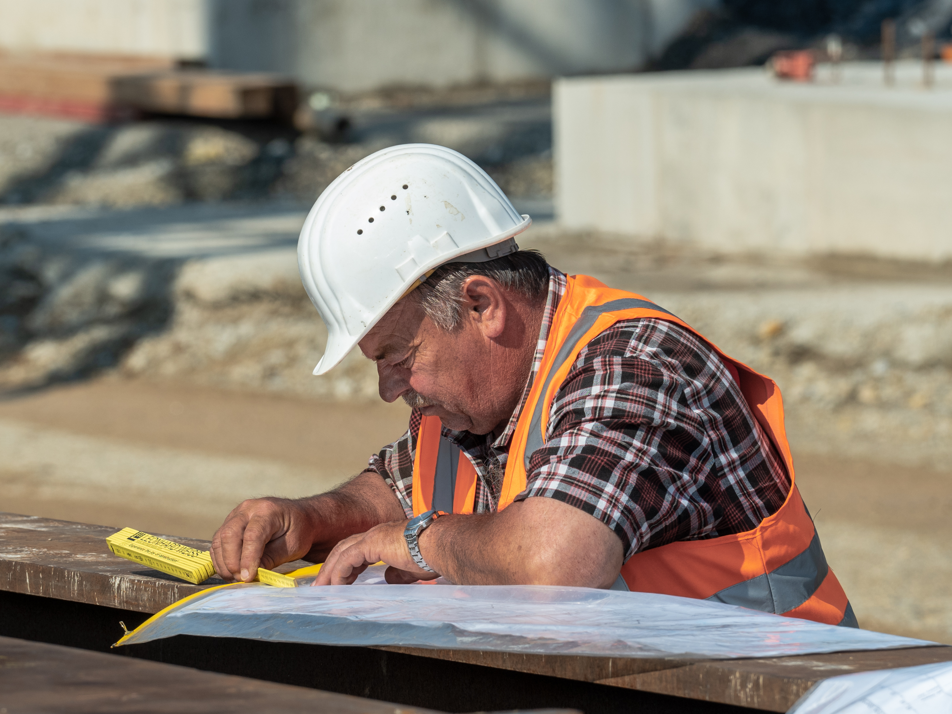 Engineer with construction plan